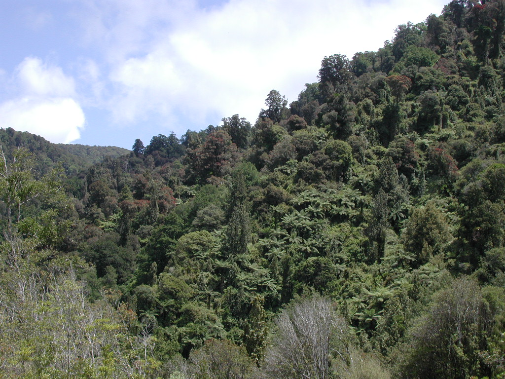 Native bush in Waiohine Gorge, comprised of flowering rata, tree ferns and evergreen broadleaf trees.